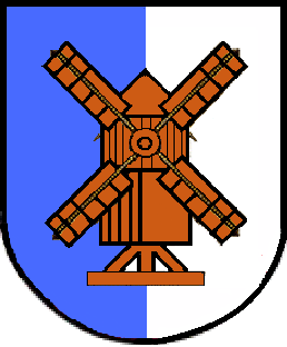 Coat of arms of Lumpzig/Thuringia near Gera and Altenburg